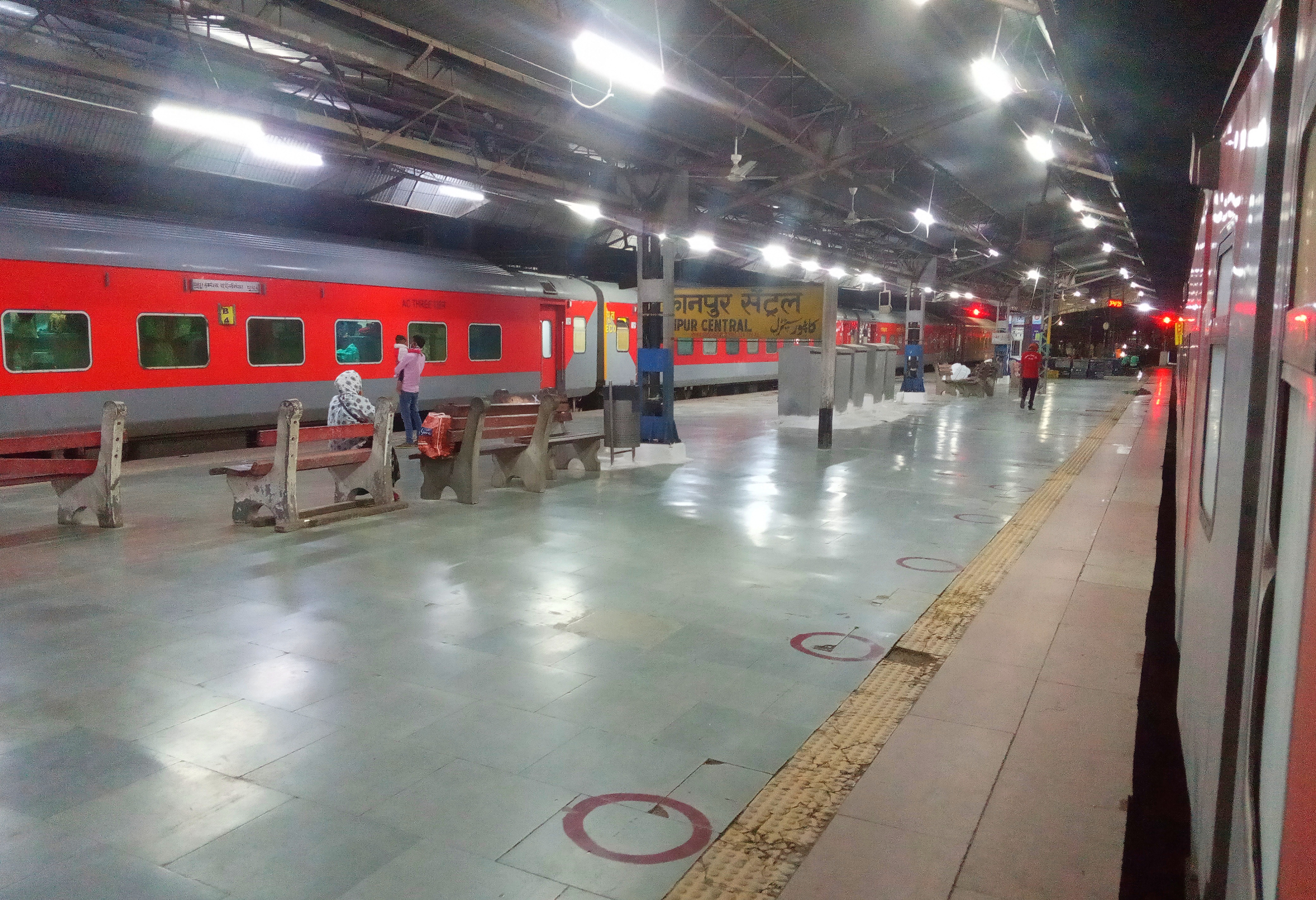 Unlock phase 1 Kanpur railway station during COVID-19 pandemic in Uttar Pradesh